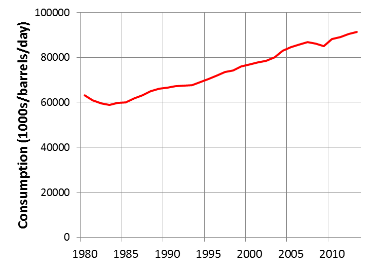 Global oil consumption 1980-2013 from EIA data.